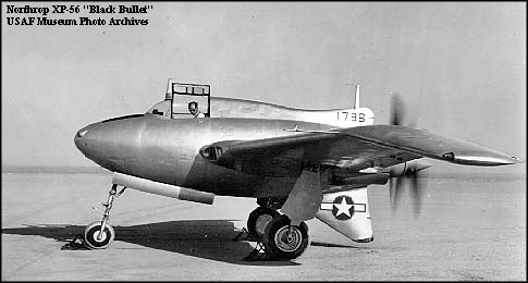 Northrop XP-56 Black Bullet